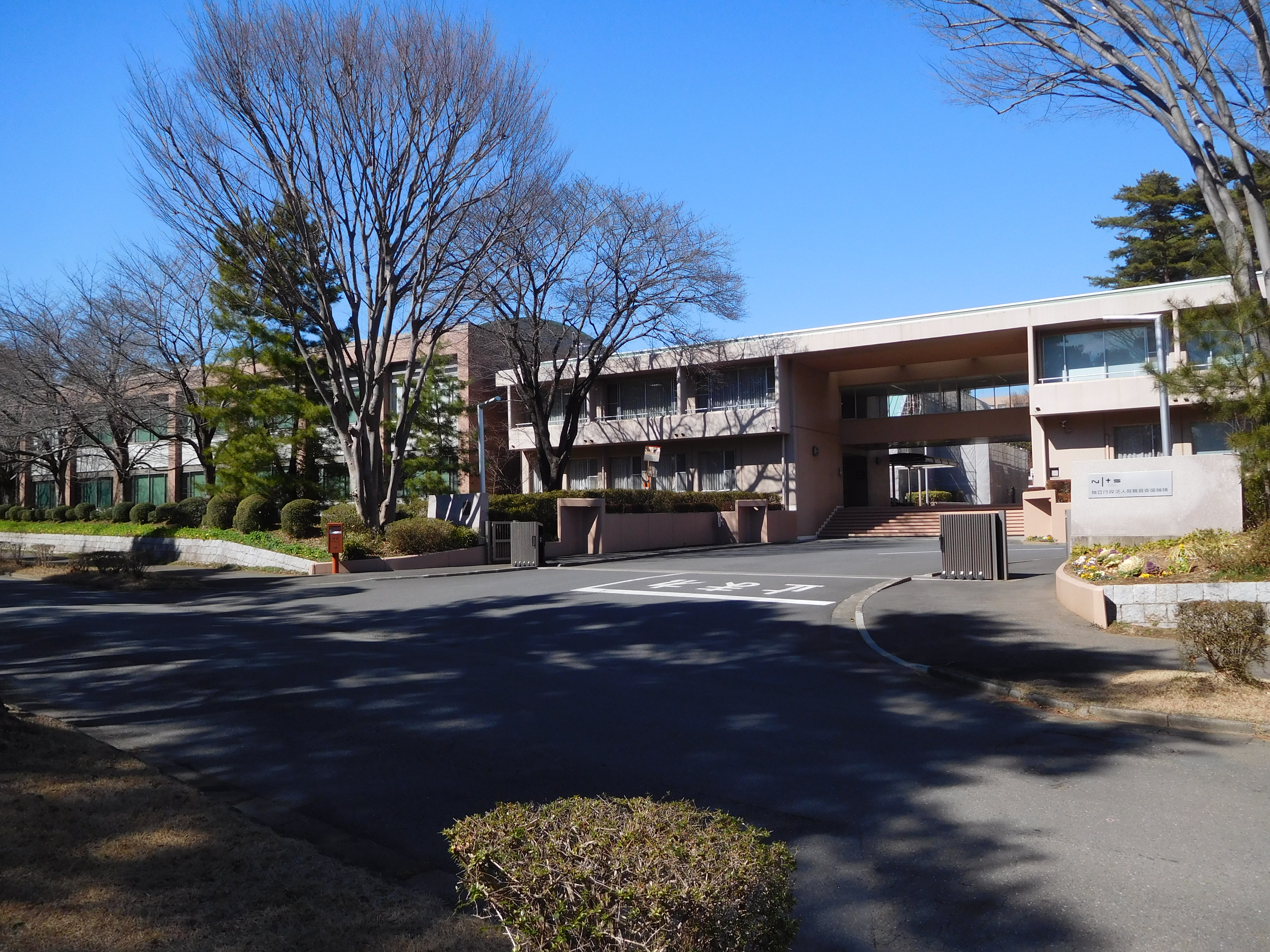 This is NITS or National Institute for School Teachers and Staff Development in Tsukuba, Ibaraki, Japan.